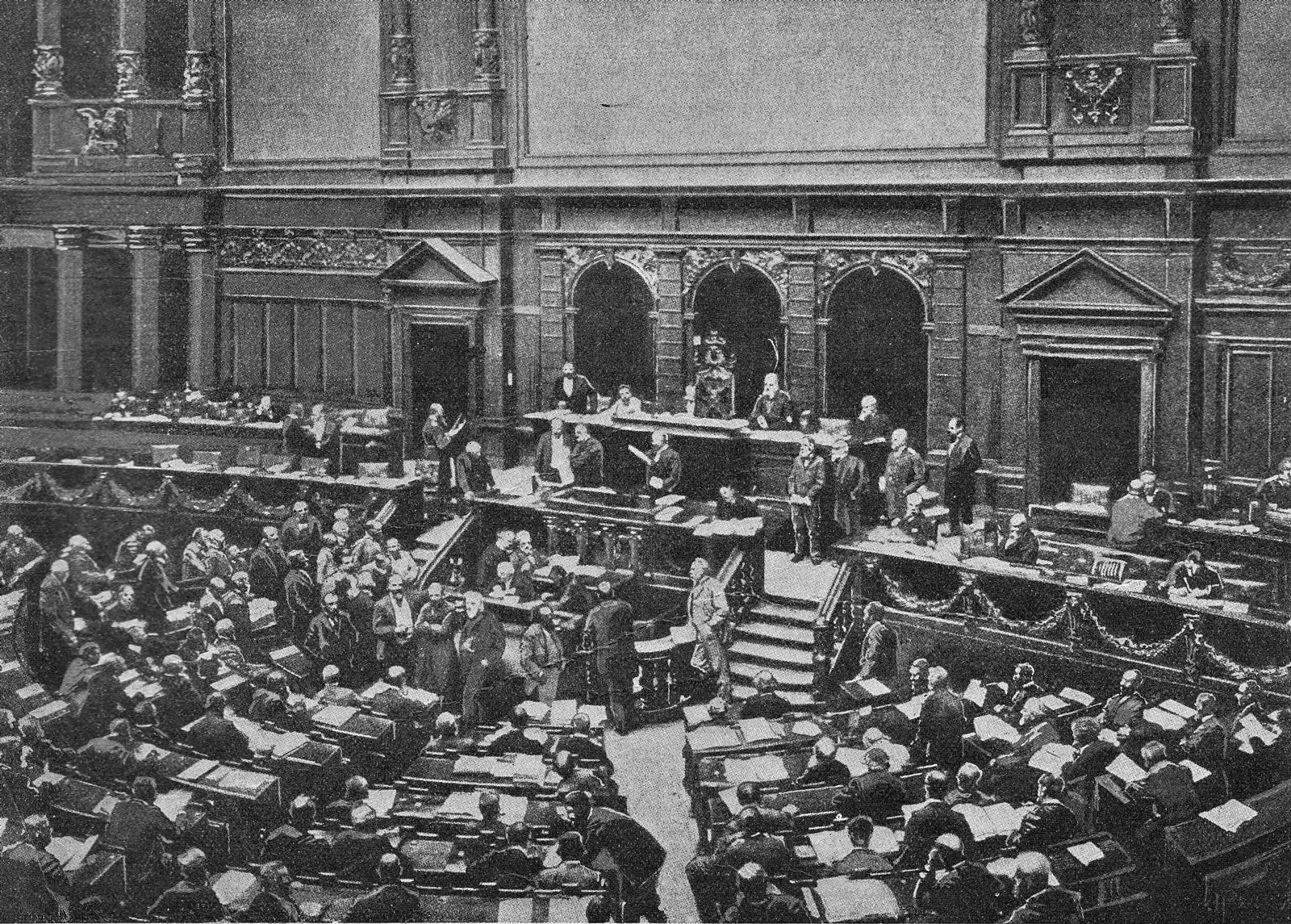 Old interior of German Reichstag